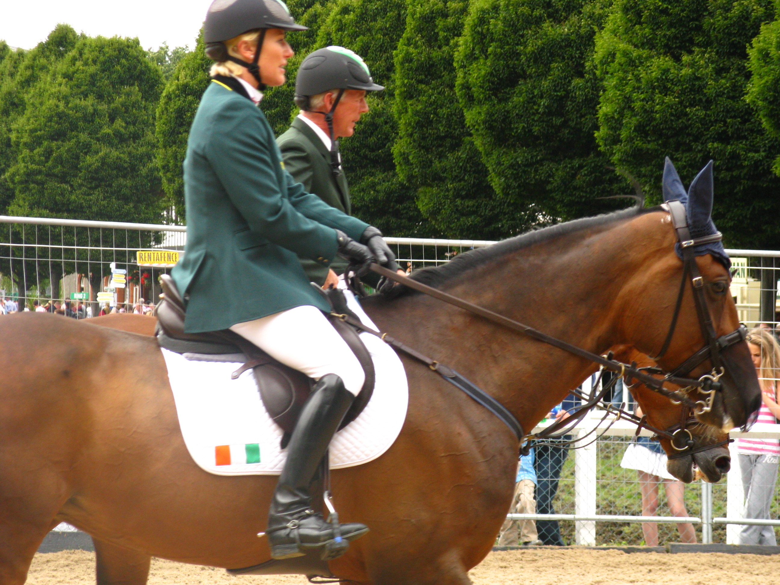 Jessica Kürten and Eddie Macken, main practise arena Dublin Horse Show (Irl) CSIO***** Superleague 2008